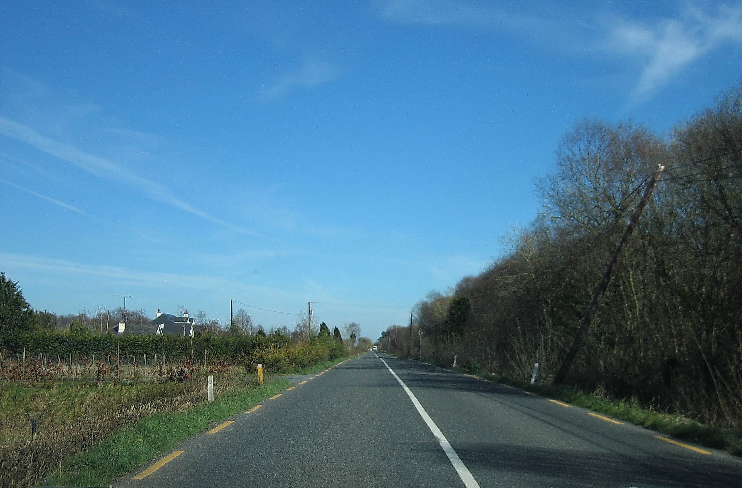 The R156 near Kilucan, County westmeath